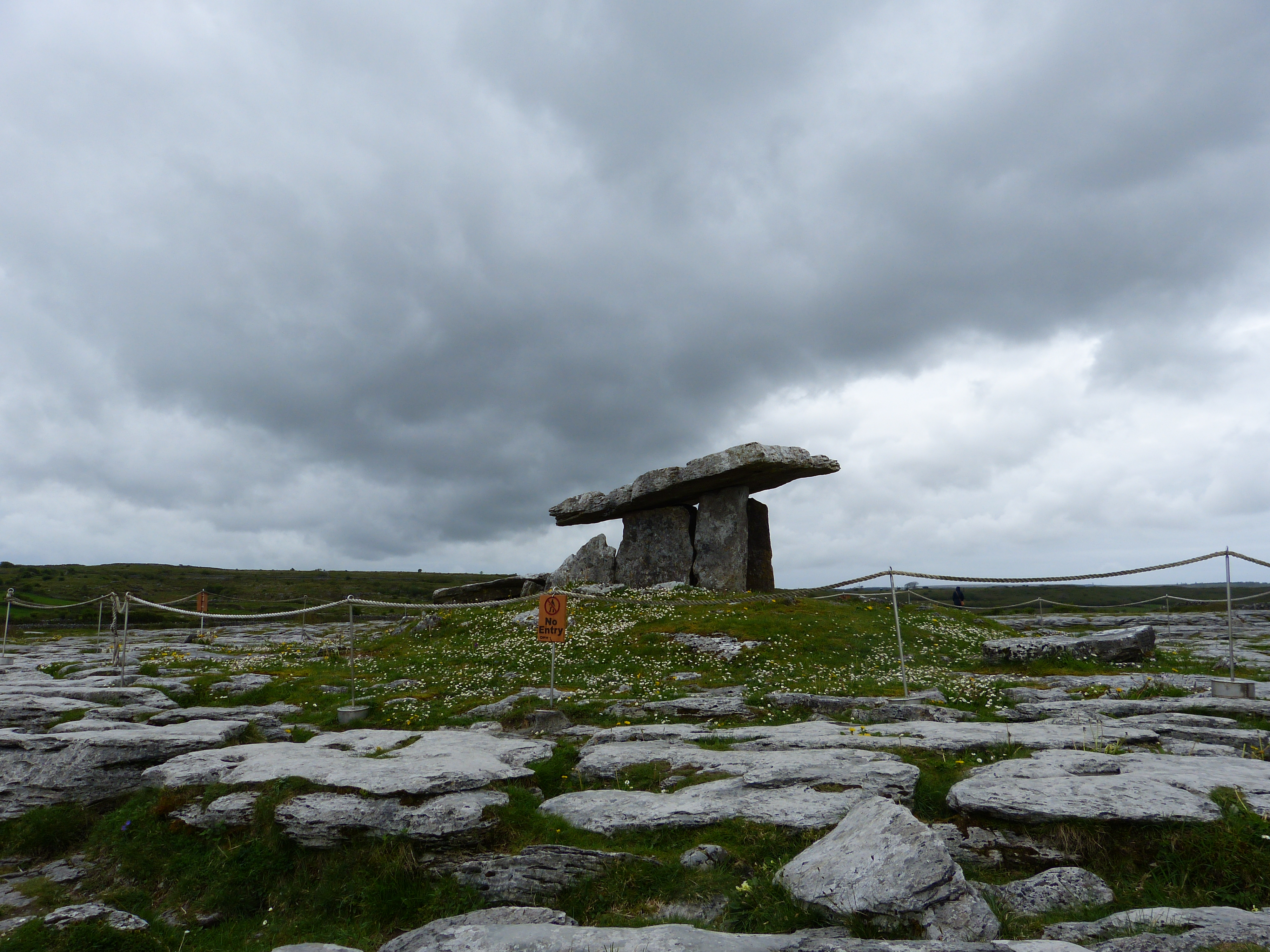 Poulnabrone dolmen, County Clare, Burren, Irland